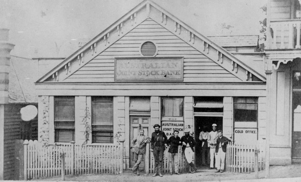 Gympie branch of the Australian Joint Stock Bank, ca. 1871 Bank clients and staff outside the bank. Gympie is a city in south-eastern Queensland, situated on the Mary River about 162 kilometres north of Brisbane. Gympie is the centre of an important dairying and agricultural district. In the early days timber was a significant industry.